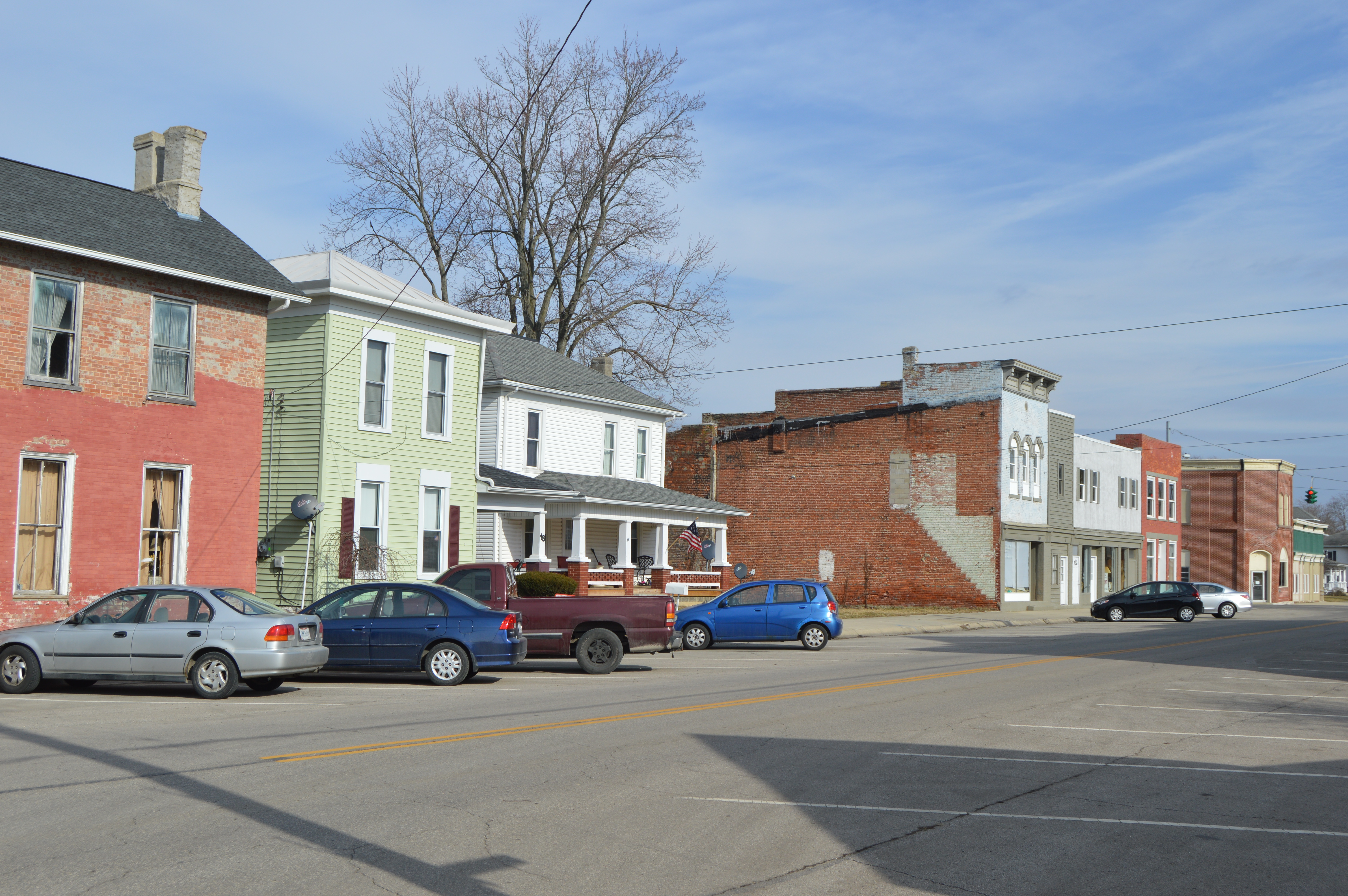 Buildings on the northern side of State Street, seen looking east from the Railroad Street intersection, in downtown Milford Center, Ohio, United States.